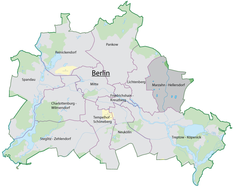 Author: Felix Hahn Source: Based on Water map of Berlin Description: Map of Berlin and its districts.